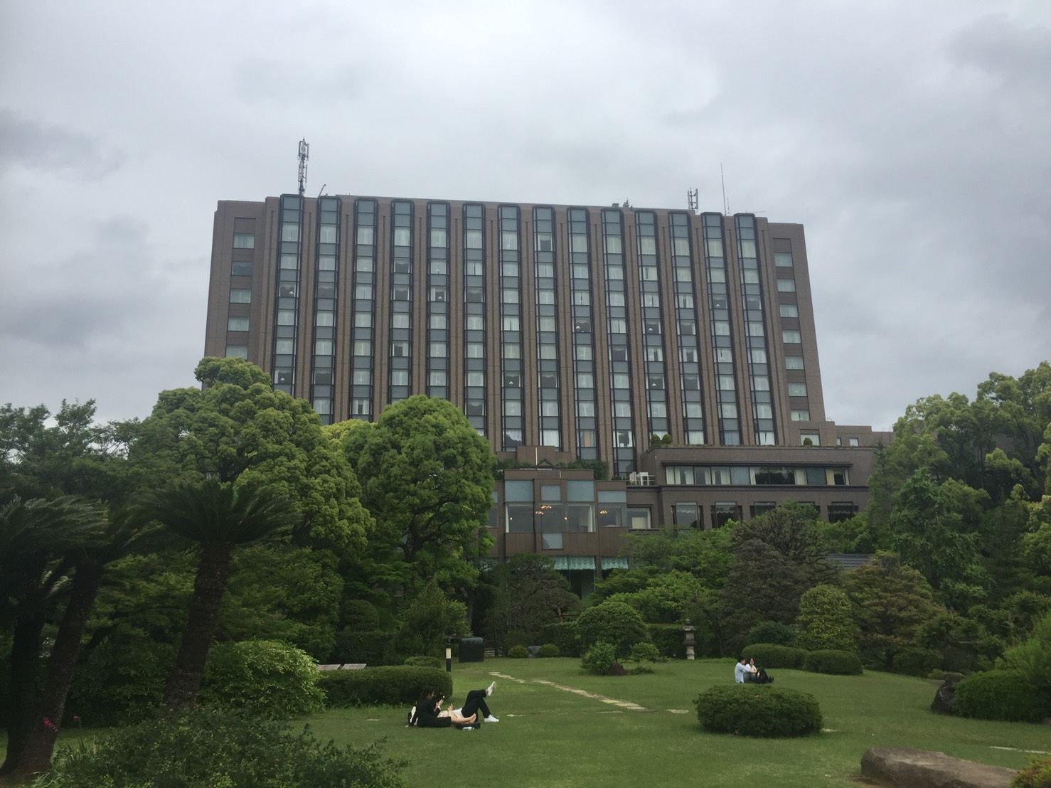 The exterior of RIHGA Royal Hotel Tokyo (photo from Okuma garden)